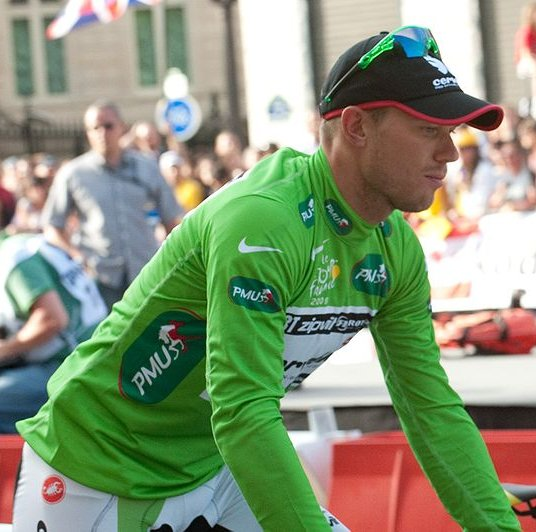 Thor Hushovd in the green jersey, in Paris, during the 2009 Tour de France.